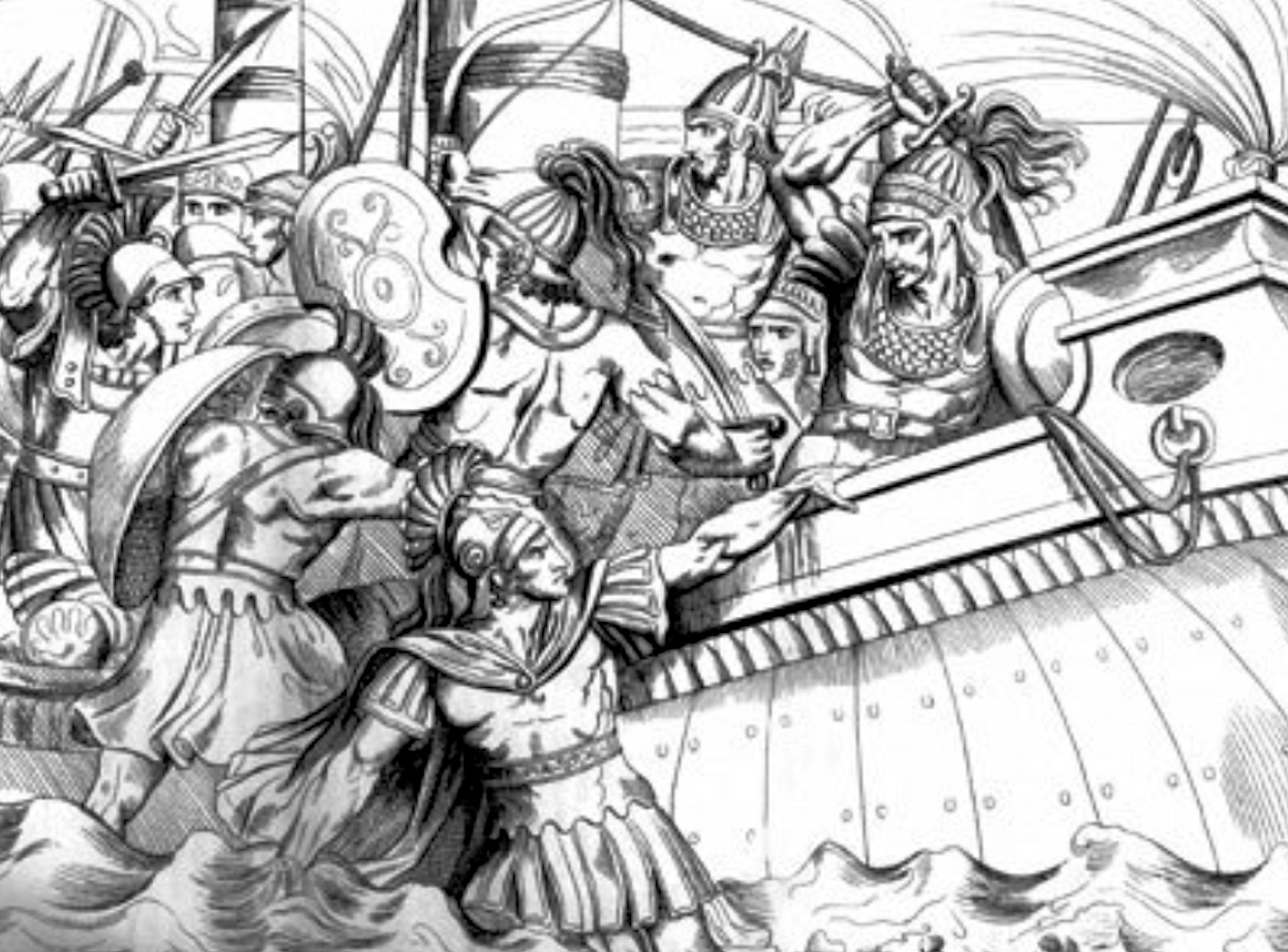 The Battle of Marathon